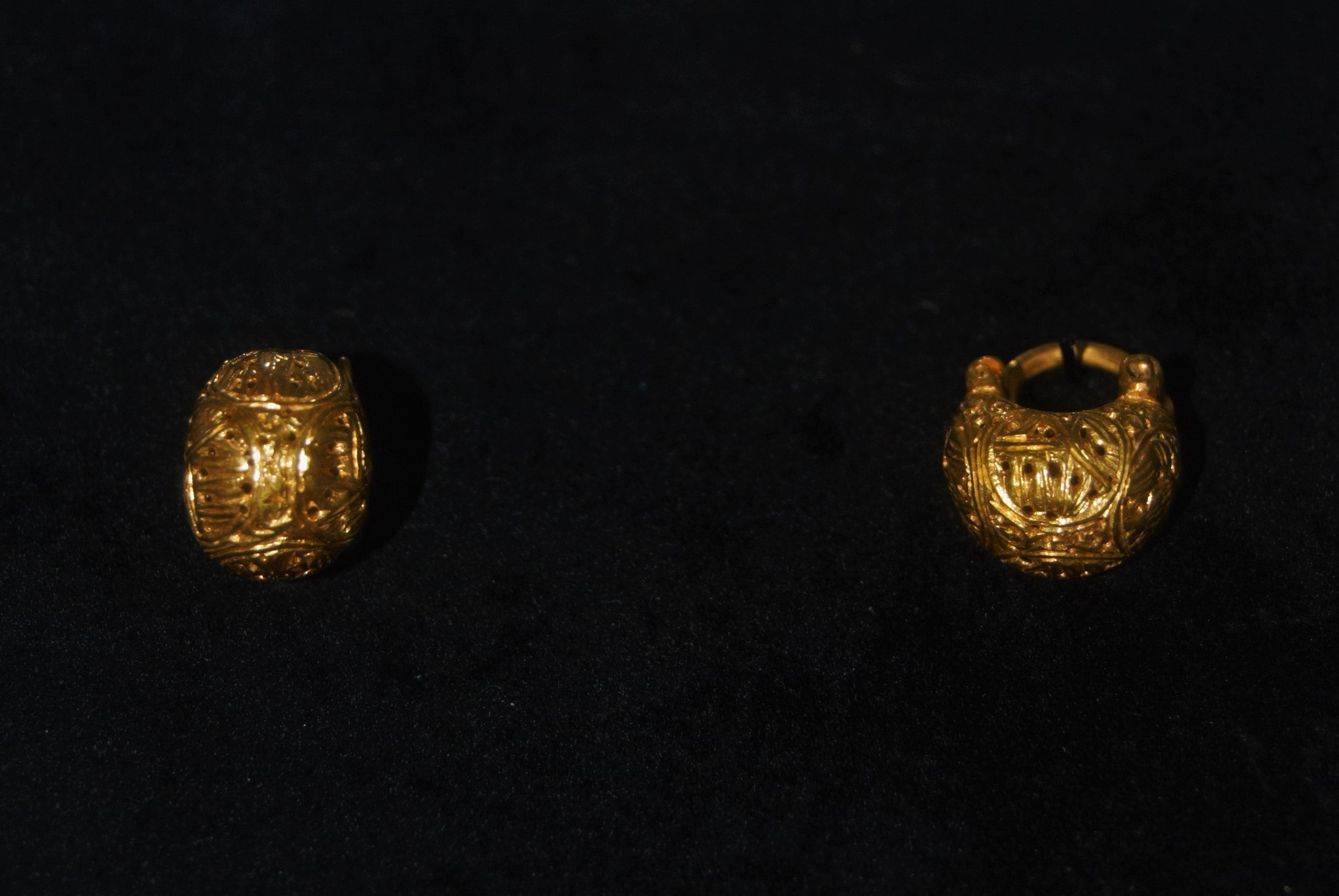 A pair of gold earrings found during the archaeological excavations of the religious object in the Smederevo Fortress. The earrings have a coat of arms of the Paleolog dynasty on them as well as M.P.A. monograms - the initials of Marija Palaiolog the second wife of Stefan Dečanski. The earrings were temporarily exhibited at the Museum in Smederevo and are a part of the museums archaeological collection. Српски (ћирилица): Пар златних минђуша пронађен током археолошких ископавања сакралног објекта у Смедеревској тврђави. Минђуше имају грб породице Палеолог и монограме М.П.А. - иницијале Марије Палеолог, друге жене Стефана дечанског. Минђуше су привремено изложене у Музеју у Смедереву и део су археолошке збирке музеја.